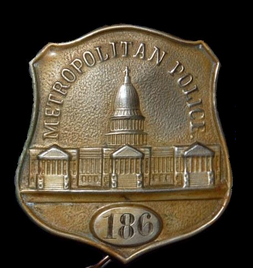 One of the first badges issued by the Washington, D.C. Metropolitan Police Department